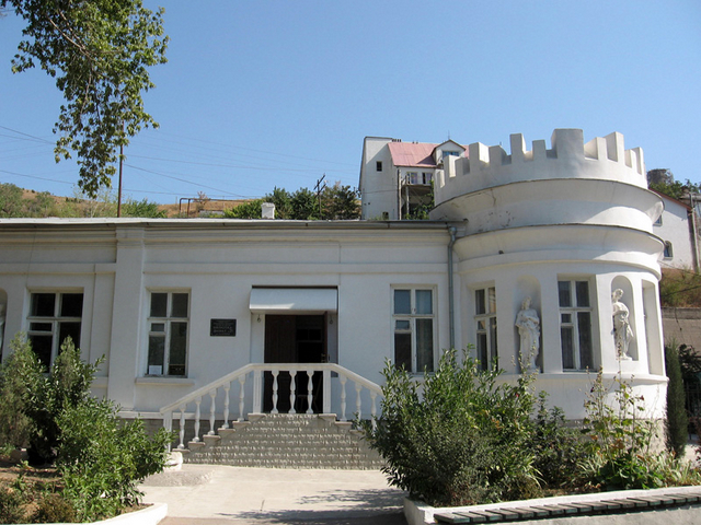 Kuprin library in Balaclava